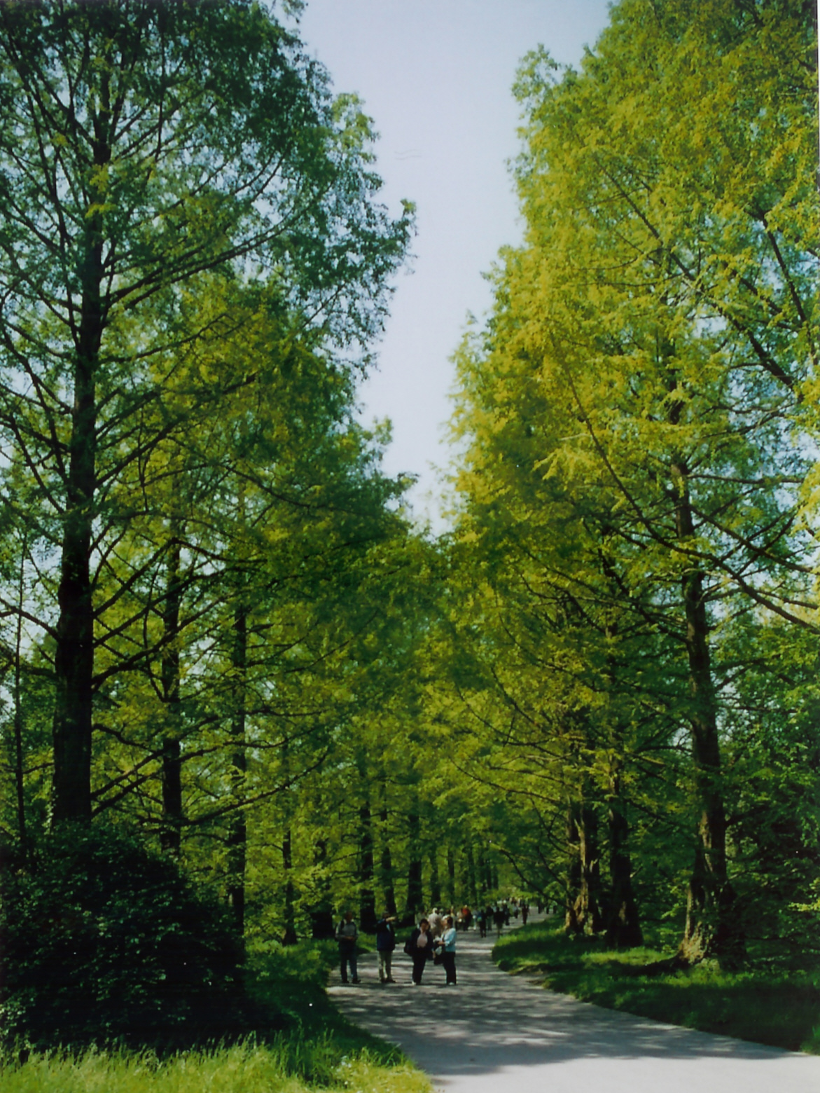 Name Metasequoia glyptostroboides Family Cupressaceae Metasequoia glyptostroboides avenue on Mainau Island (Lake Constance, Germany). de: Urweltmammutbaum-(Metasequoia glyptostroboides)-Allee auf der Insel Mainau (Bodensee). Own work - photo taken by Jan-Herm Janßen May 11, 2006.